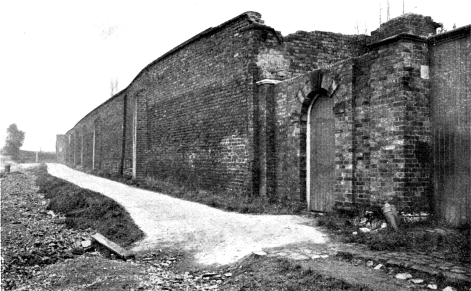 Remains of Beaver Hall stables, Waterfall Road, before demolition in 1924